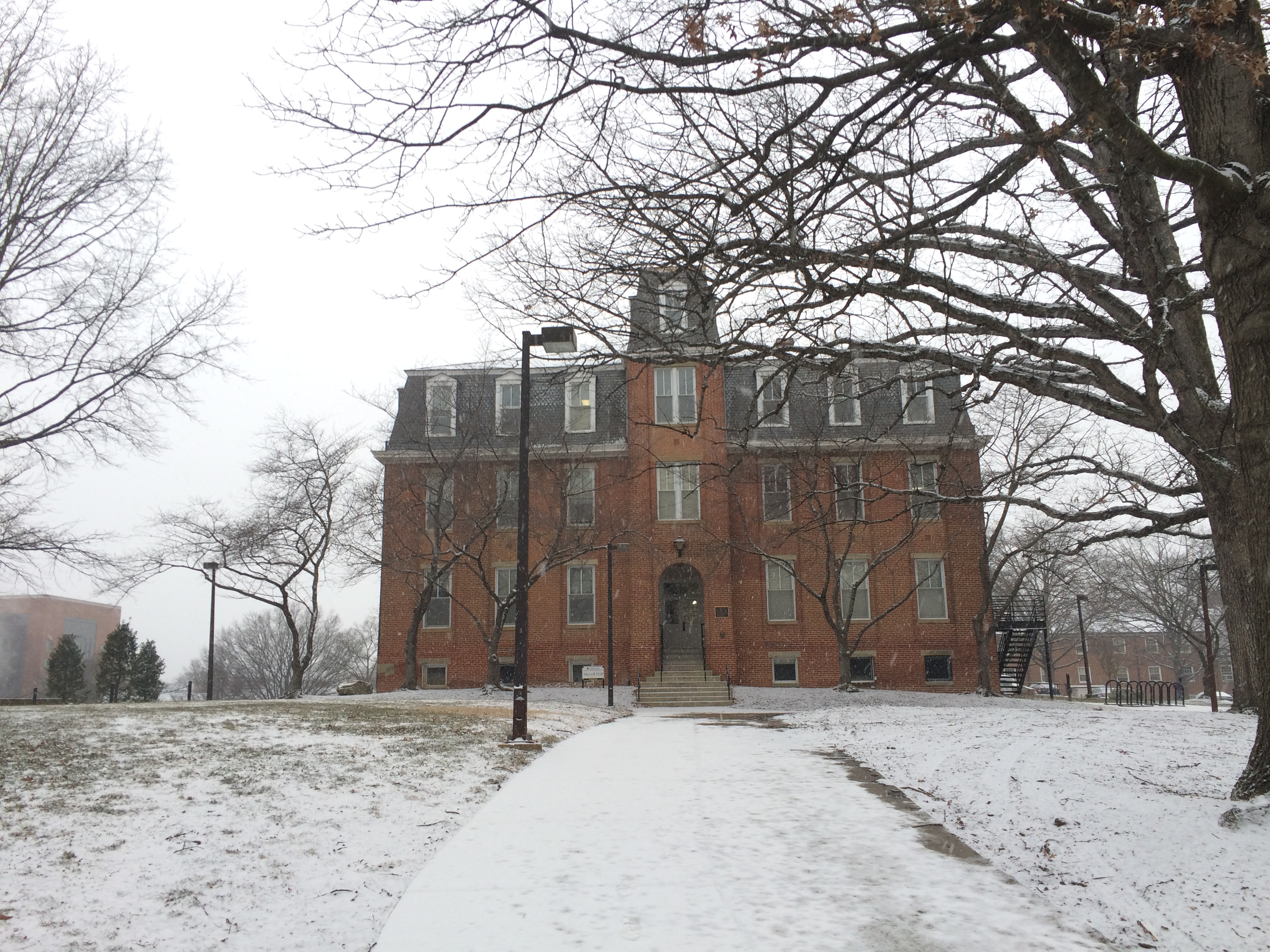 Morrill Hall at the University of Maryland during a snow storm on February 1, 2019. This is the oldest original academic building at the University of Maryland.